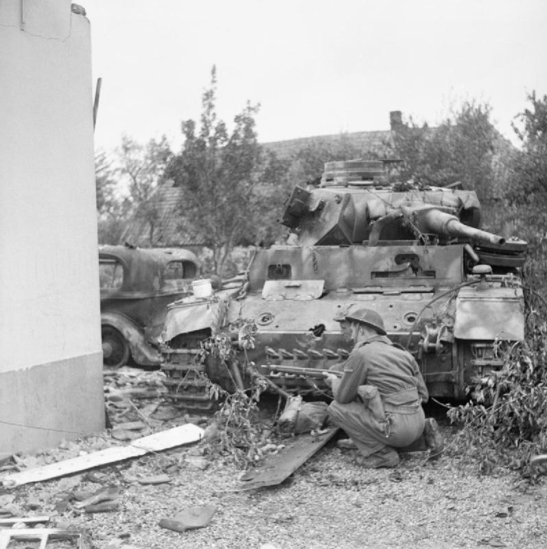 The British Army in North-west Europe 1944-45 A soldier crouches near a knocked-out German PzKpfw III tank in Oosterhout near Nijmegen, 27 September 1944.